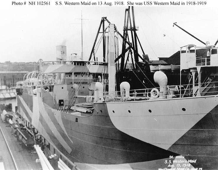 Photograph showing SS Western Maid shortly before commissioning into the United States Navy as USS Western Maid